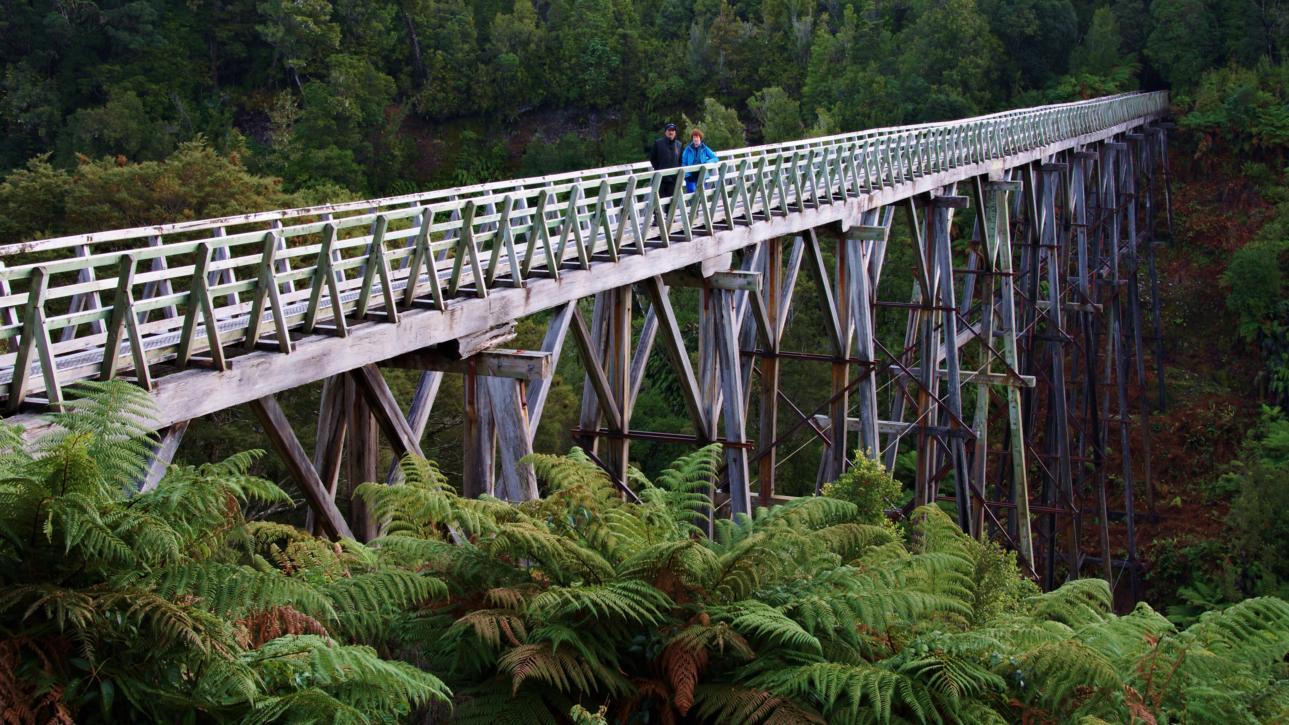 Percy Burn Viaduct (125 metres long, 35 metres tall), Tuatapere Humpridge Track, Southland, New Zealand